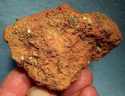 Minium, Lead Locality: Cedar City, Iron County, Utah, USA (Locality at ) Size: 7.0 x 4.7 x 3.8 cm. Minium is a RARE secondary alteration product of lead. This brick-red specimen is SOLID minium, either as microcrystals or in massive form. A very well-placed, 7 mm cluster of lead microcrystals dominates the front of the scupltural matrix and lead microcrystals are scattered on other faces and in vugs on this rare mineral from a VERY UNCOMMON Utah locality - the iron mines near Cedar City. The iron mines operated from 1851 through the 1980s. Ex. Charles Hansen Collection, a noted California collector. Hefty for the size (lead, of course) at 282 grams or 9.9 ounces.